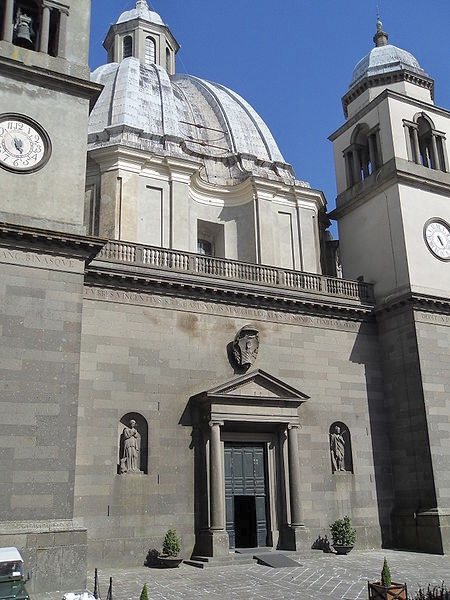 Montefiascone: church of Saint Margaret